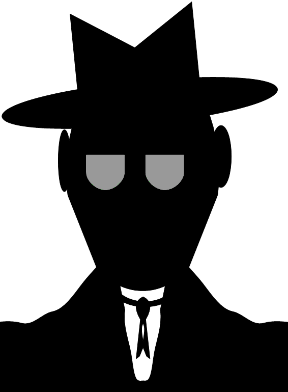 Silhouette of a spy agent.